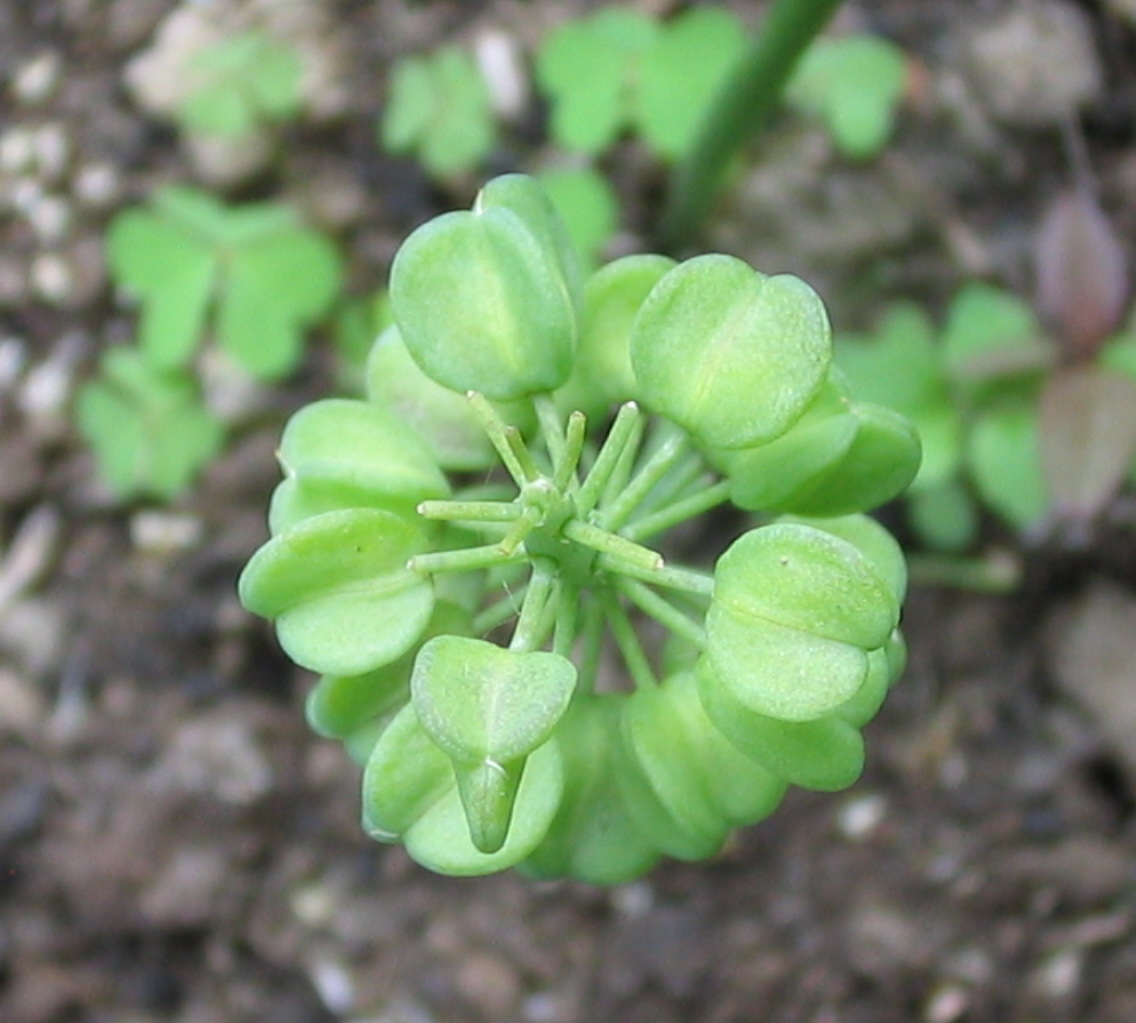 Muscari neglectum with capsules, shot taken from the top